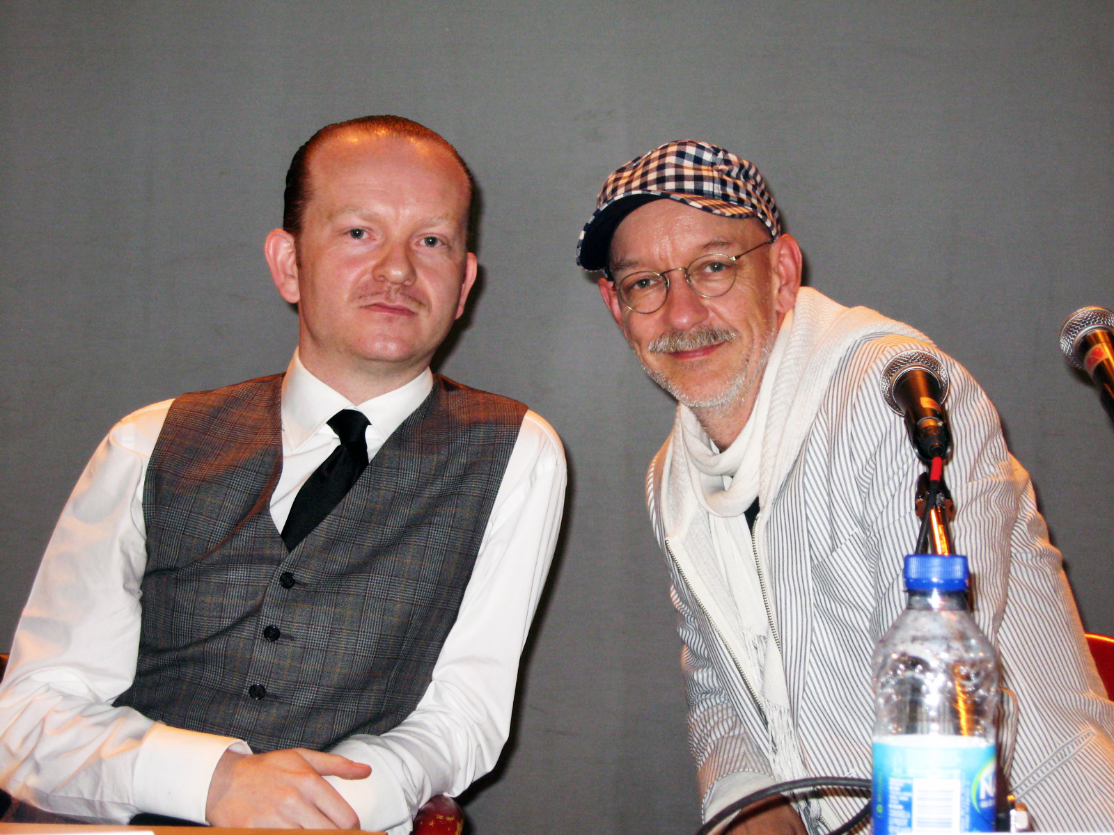 German electronic musician Uwe Schmidt (Atom Heart) and Thomas Fehlmann during a panel at MUTEK10 in Montreal, Canada